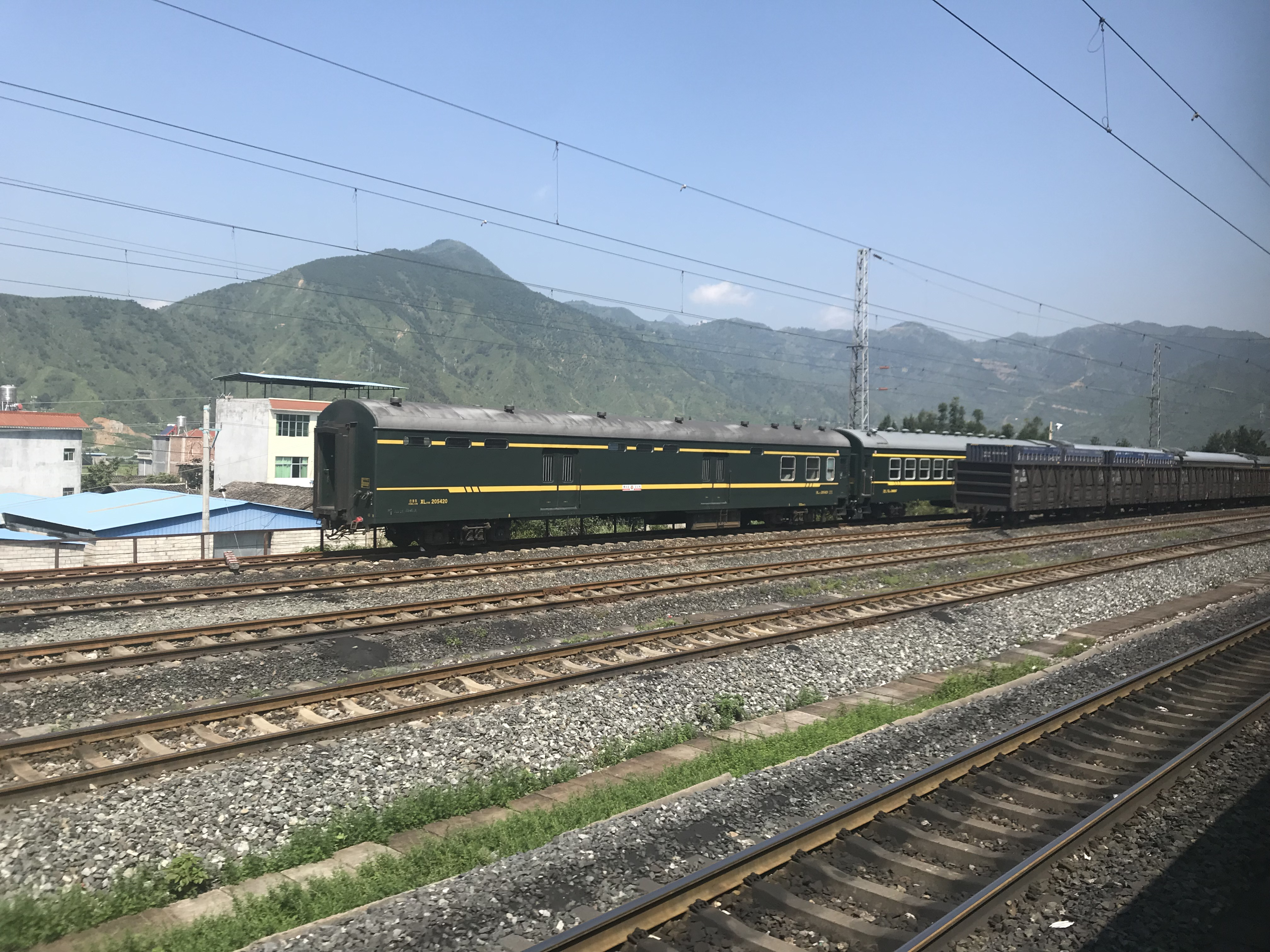 I know because there is a landslide, but not sure why it is here.